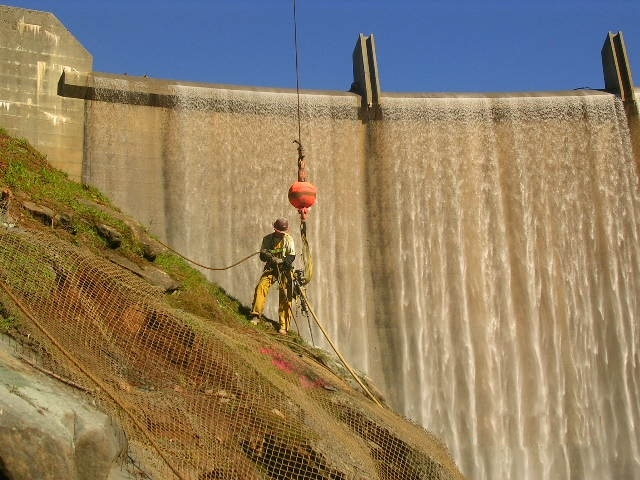 Scaling the rock wall face during construction of the Narrows II Powerhouse Flow Bypass Project in 2006 by Mitchell Engineering.Englebright Dam, Yuba County, California.